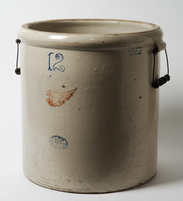 Original Image taken from The Minnesota Historical Society on Flickr